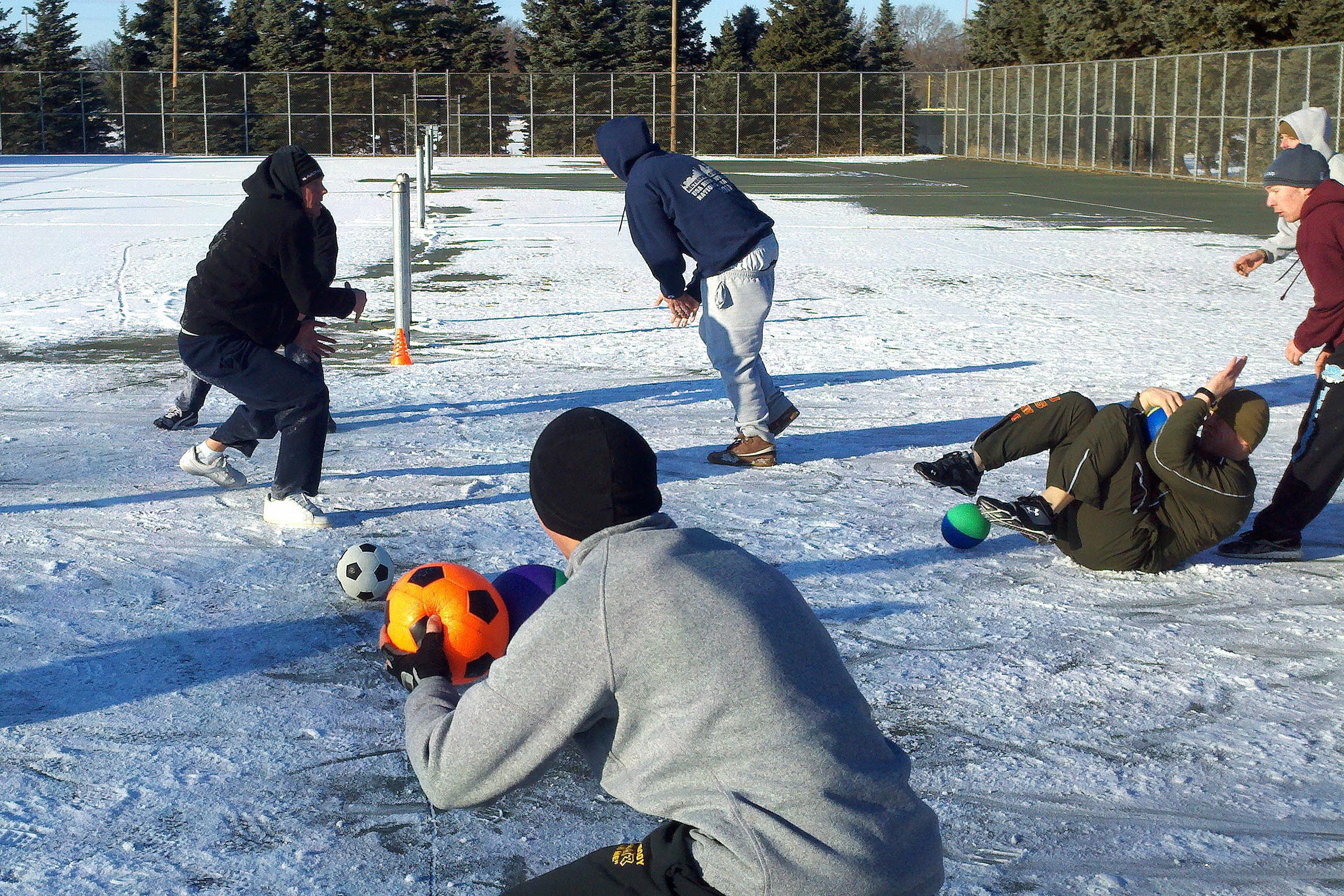 Marines with Recruiting Substation Bloomington hone their marksmanship skills with a friendly game of dodge ball on Dec. 10 after their monthly pool function. For more motivational moments, visits